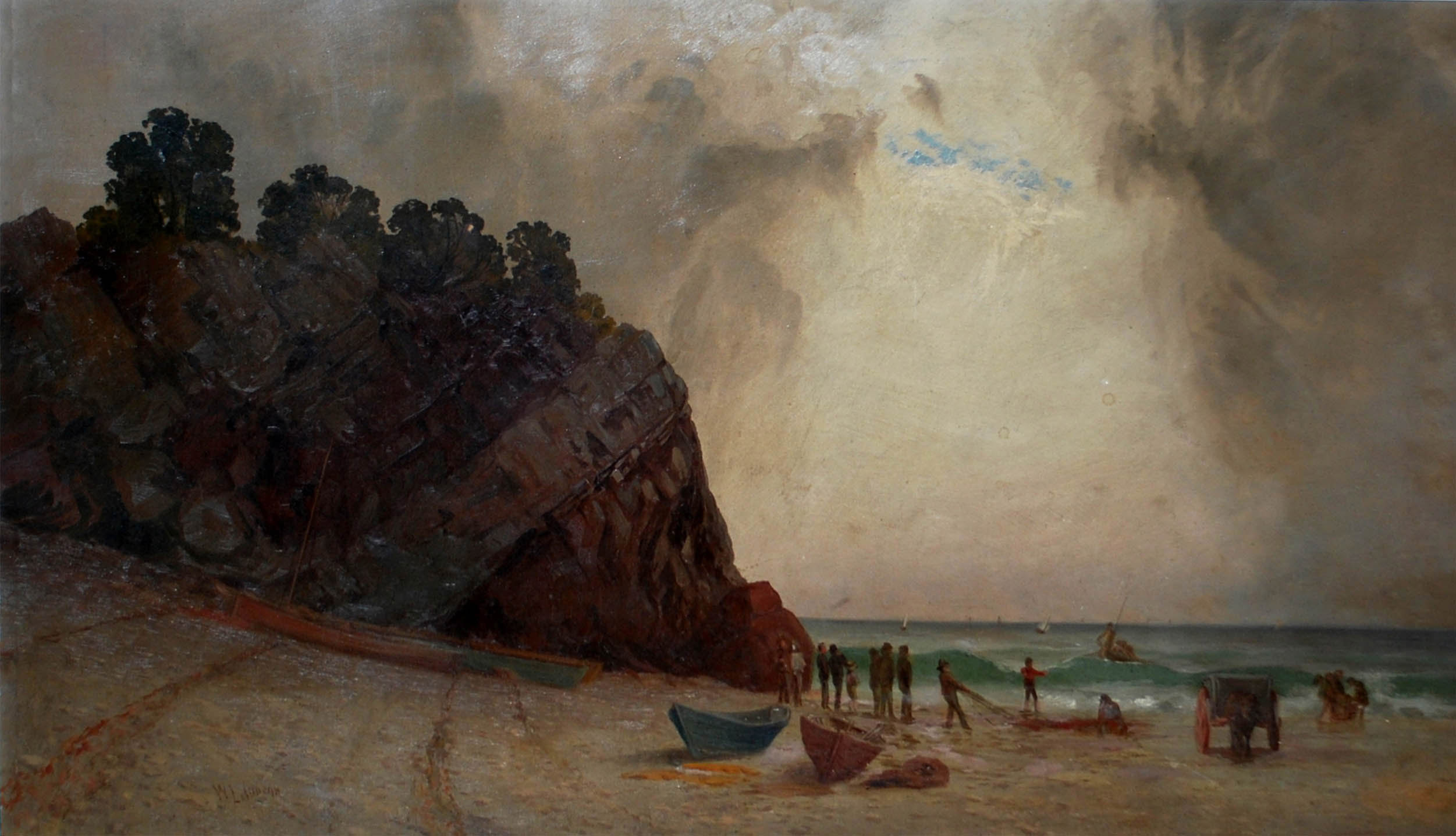 Oil painting by William Lees Judson of Avalon Beach in California, the United States of America.